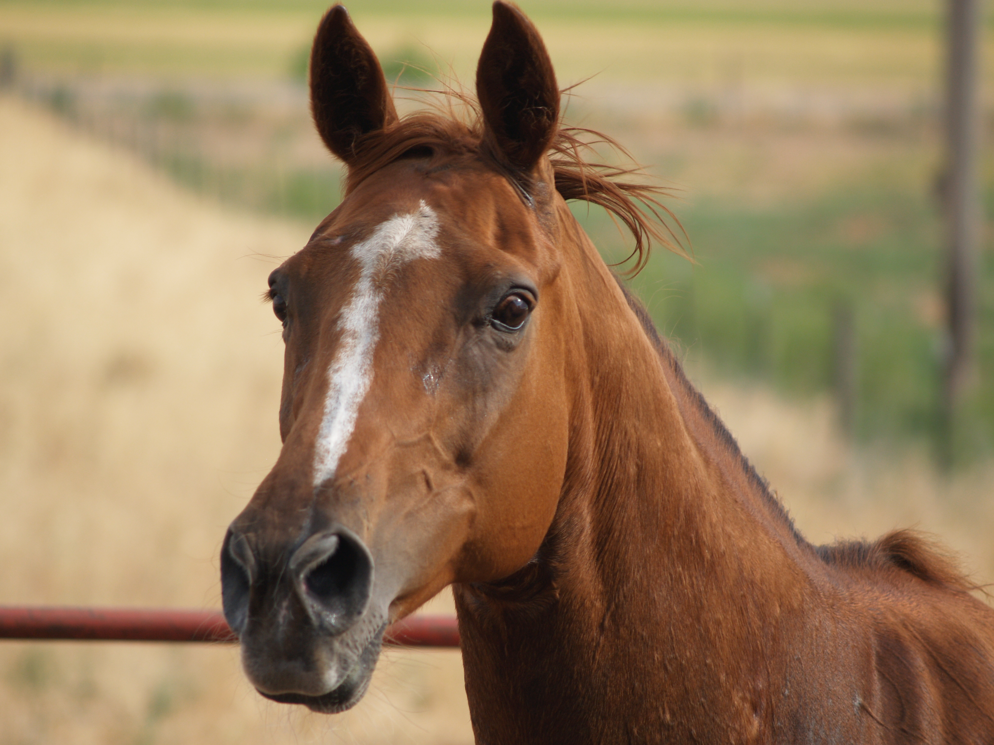 An alert thoroughbred mare.